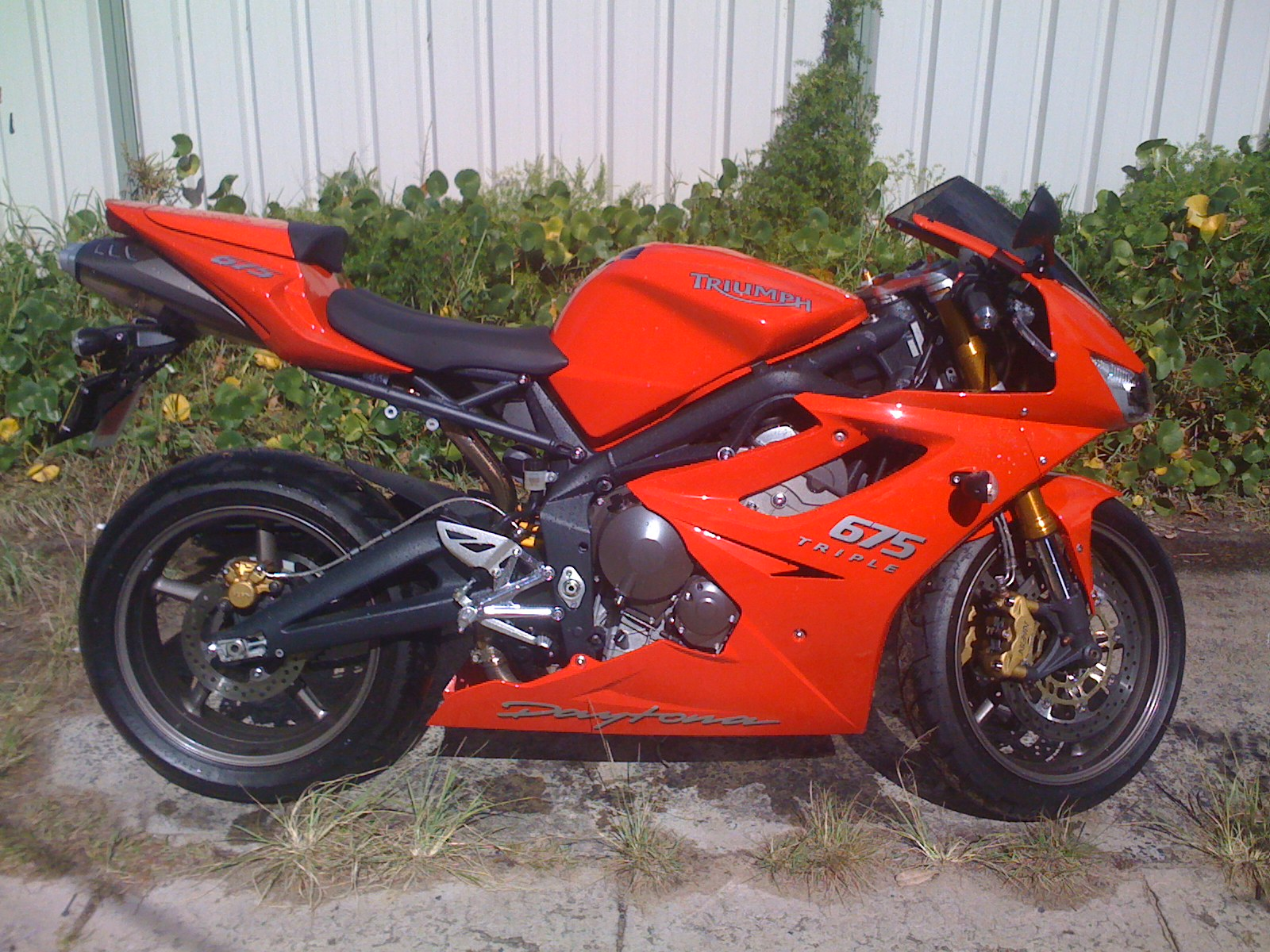 Triumph Daytona 675 Tornado Red 2008